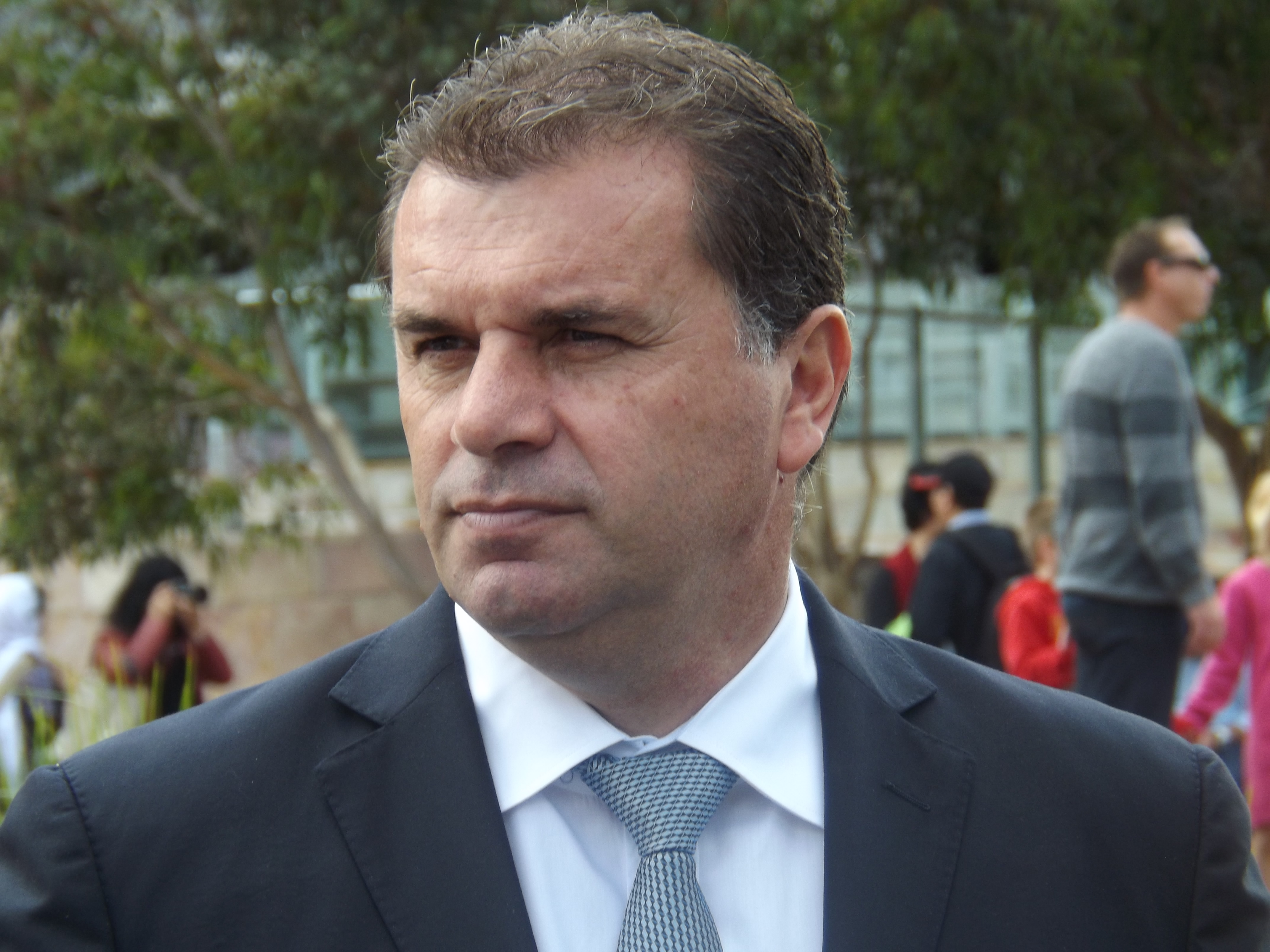 Ange Postecoglou during the 2015 AFC Asian Cup tour at Federation Square, Melbourne.